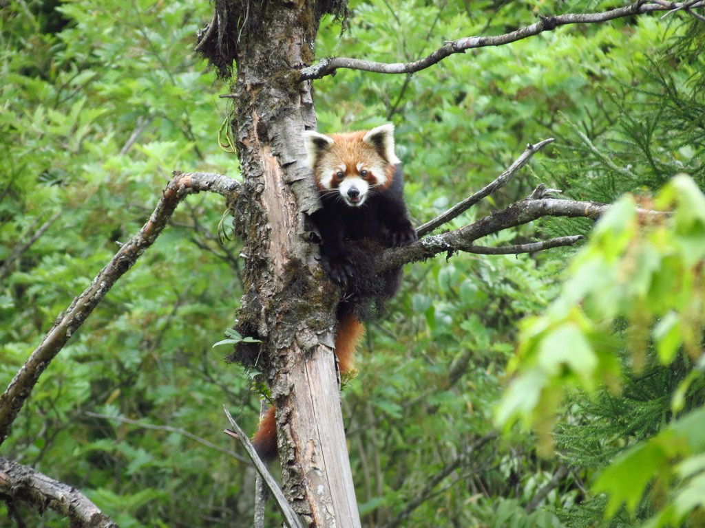 Animals, fauna, wildlife Neora Valley National Park West Bengal India